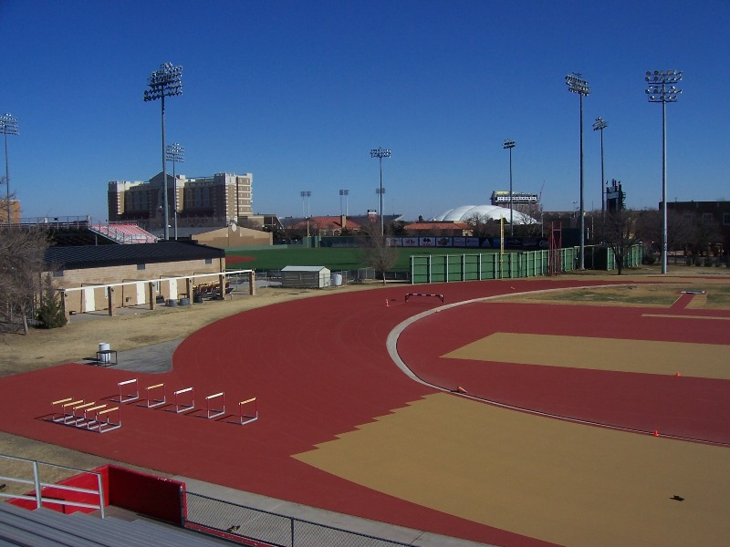 Photo credit: O'Jay Barbee R.P. Fuller Track & Field at Texas Tech University in Lubbock, Texas, U.S..